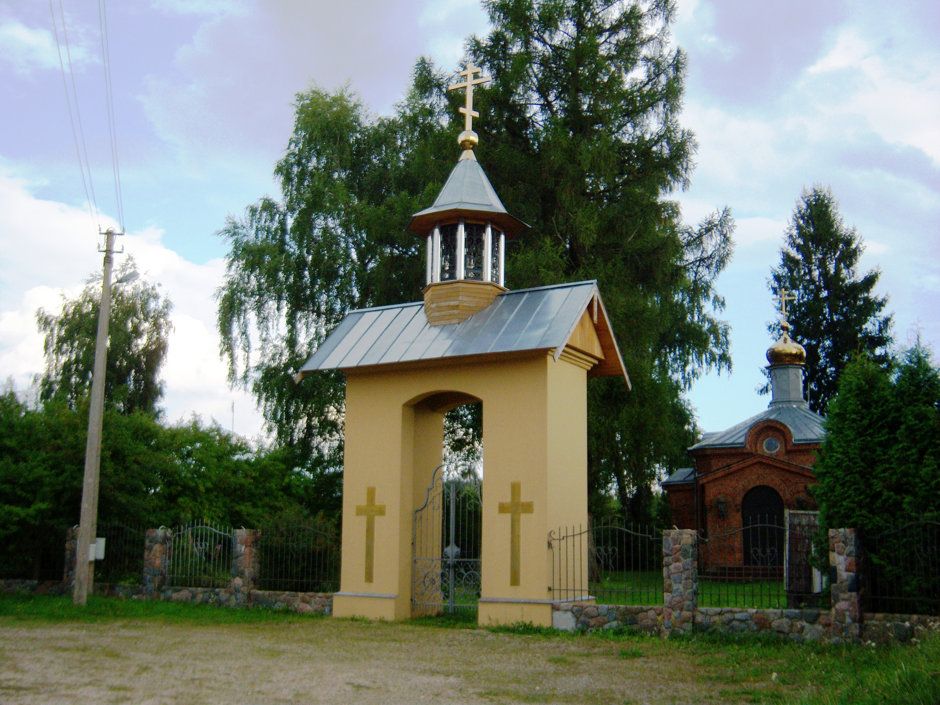 Geisiškės Orthodox Church, gates, Vilnius District, Lithuania